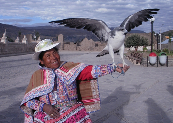 Lady with Tame Falcon in Yanque, Peru - one of the three main tourist towns of the Colca Canyon.